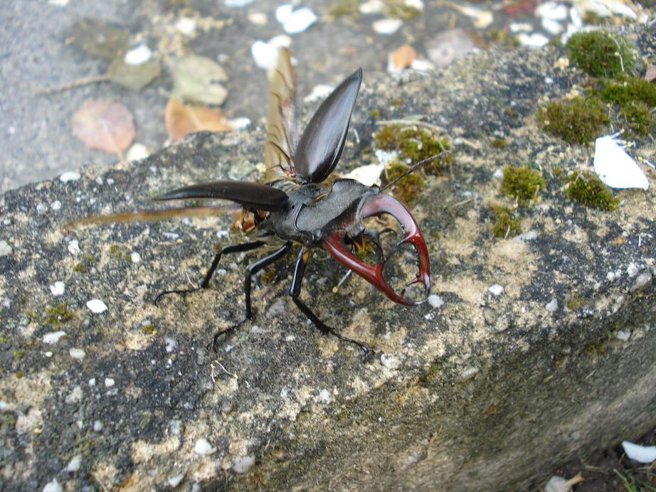 Lucanus cervus cervus 66 mm